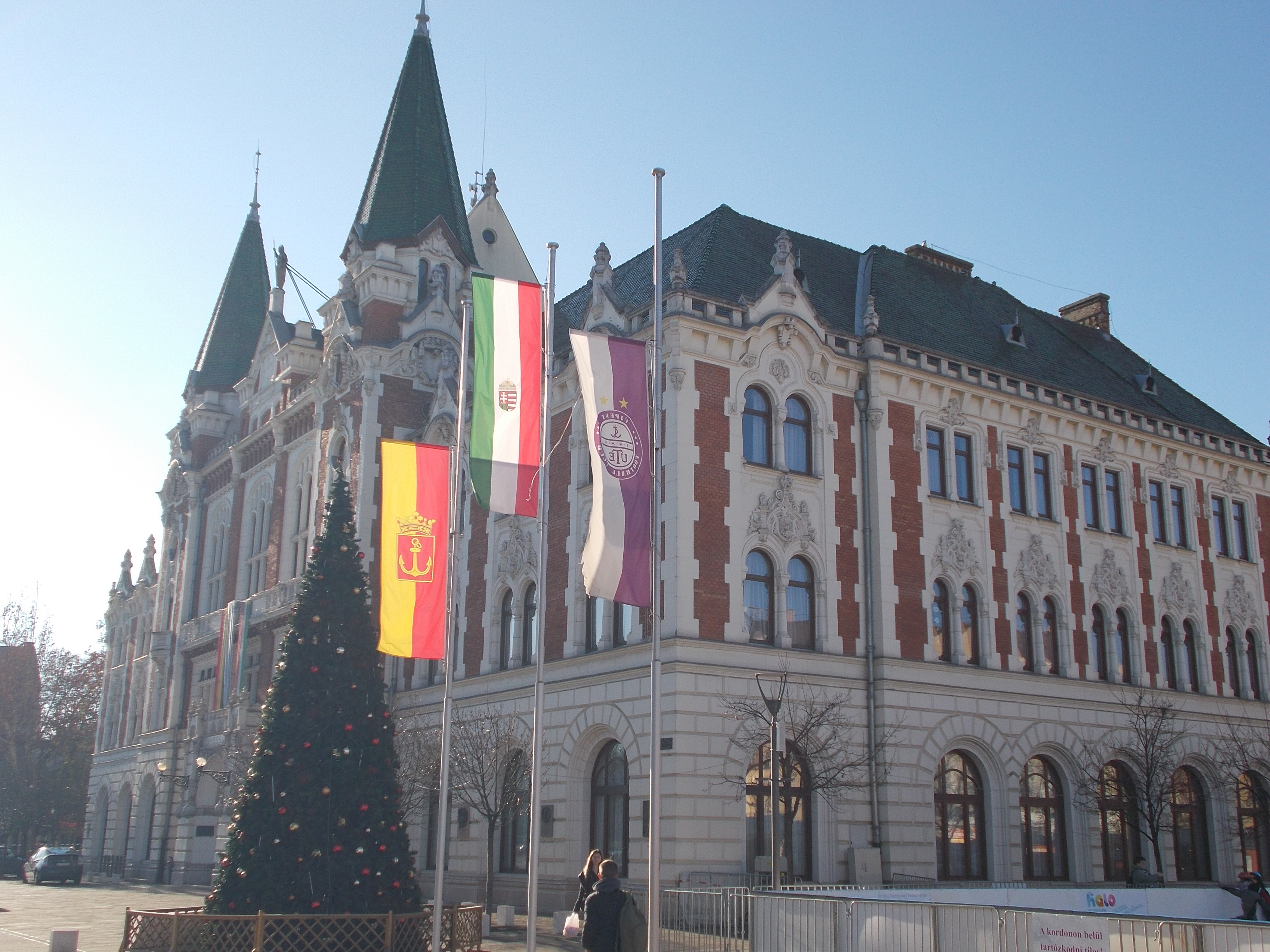 Újpest Town Hall, Flags